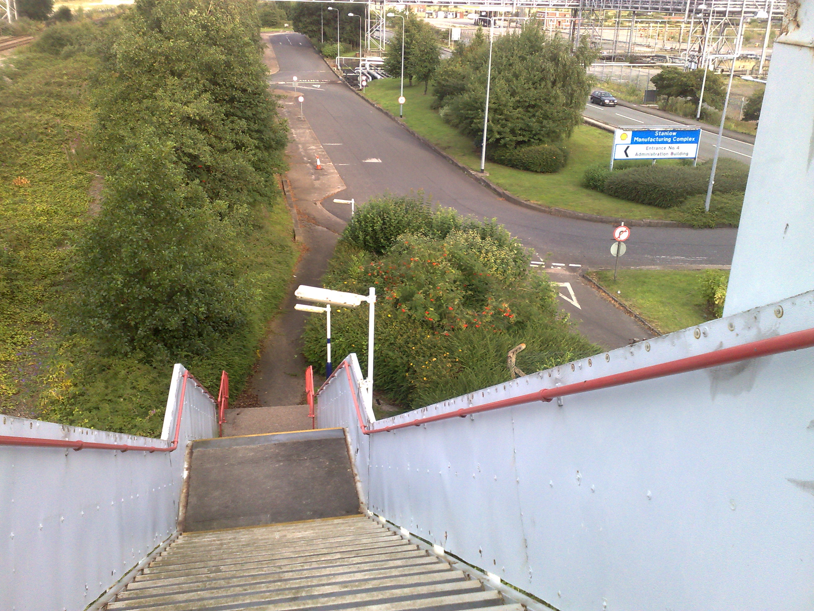 The steps leading up/down to/from the station entrance/footbridge